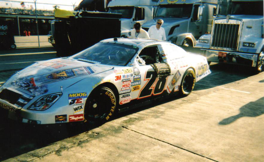 The 28 car of Shane Hall at Darlington 2006. I have expressed written consent from the author to use this photo. Source: Josh at